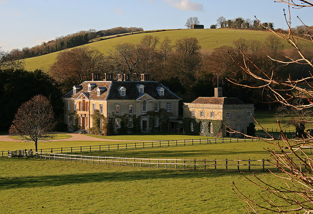 Stepleton House The far eastern slopes of Hambledon Hill form the backdrop to this view of Stepleton House, a C17 country house that was substantially altered during the late C17 to mid-C18. Two pavilion wings, linked to the main house by single storey passages (just one can be seen here) were added in 1758 by the owner Julines Beckford. The house is Grade I Listed.